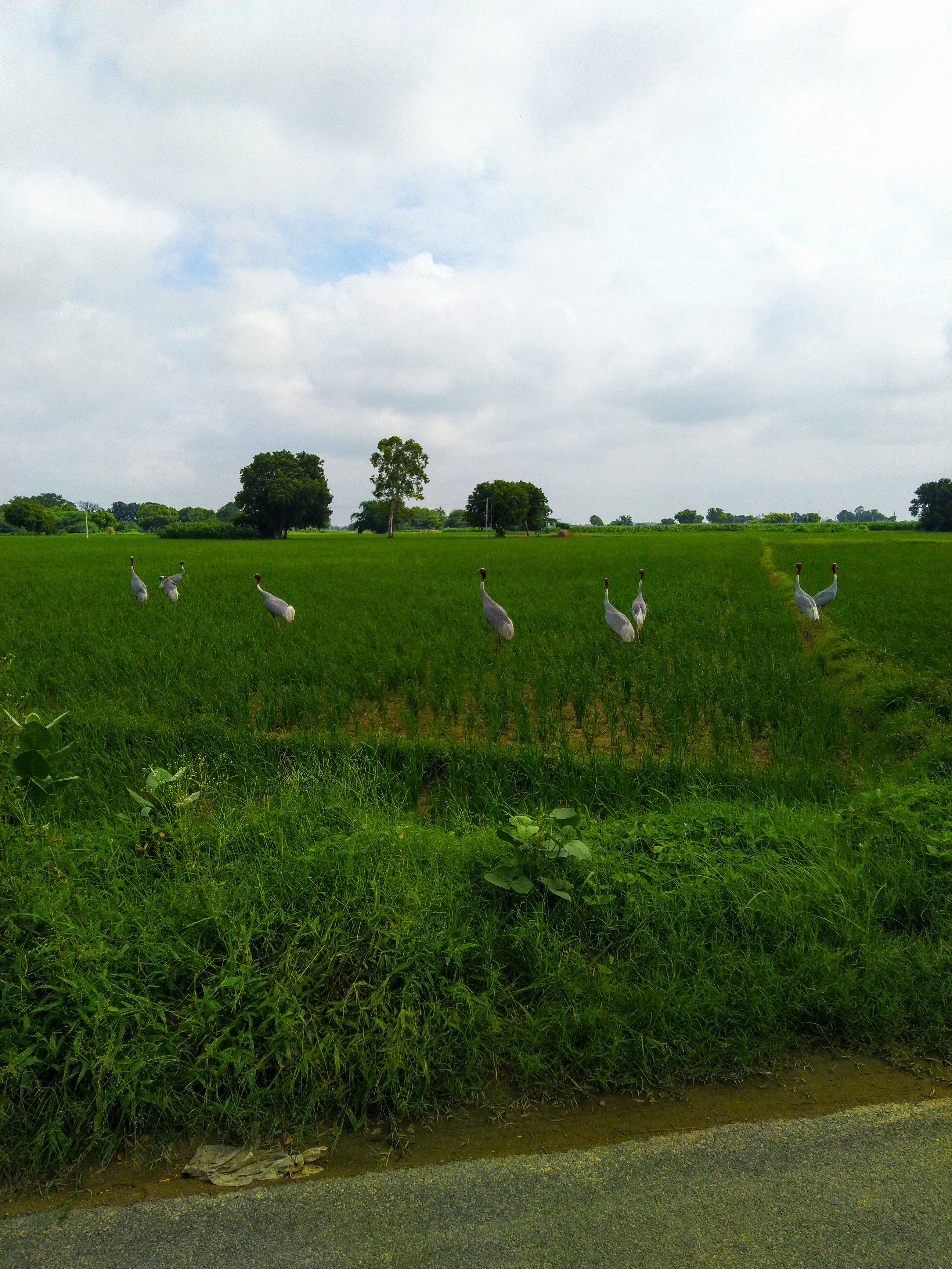 Sarus Crane in Kishni( Mainpuri District) Uttar Pradesh